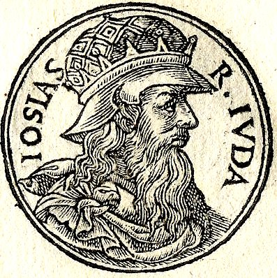 Josias-Josiah was a king of Judah (641–609 BC) who instituted major reforms.